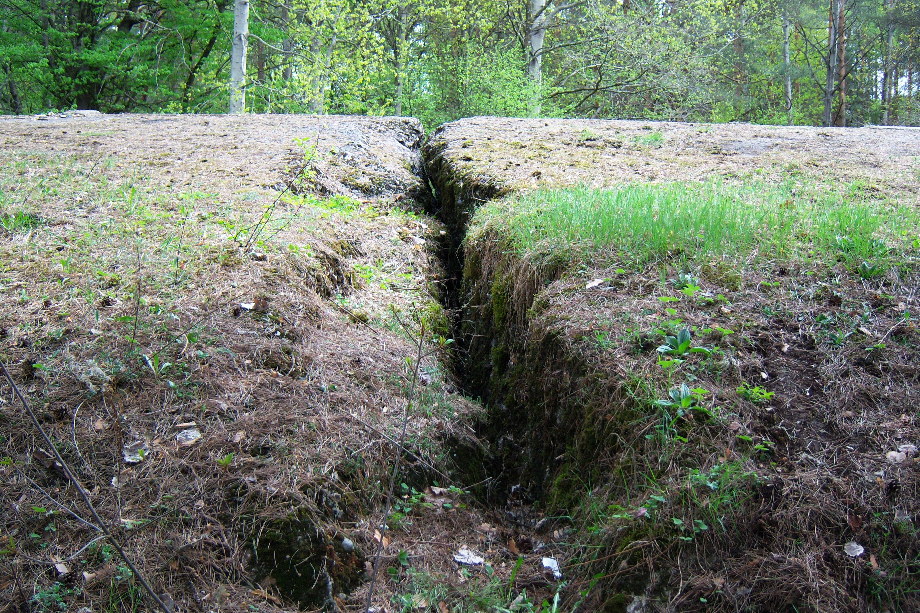 Kaunas Fortress. Romainiai Fort (or X Fort), Lithuania. Main Shelter's Rupture Kategorija: Kauno tvirtovė